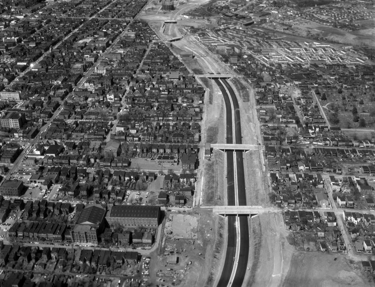 Title: Construction of Interstate 95, downtown Richmond Creator: Adolph B. Rice Studio Date: March 28, 1958 Identifier: Rice Collection 1832B Format: 1 negative, safety film, 4 x 5 in. Repository: Library of Virginia, Prints and Photographs, 800 E. Broad St., Richmond, VA, 23219, USA, :8881/R